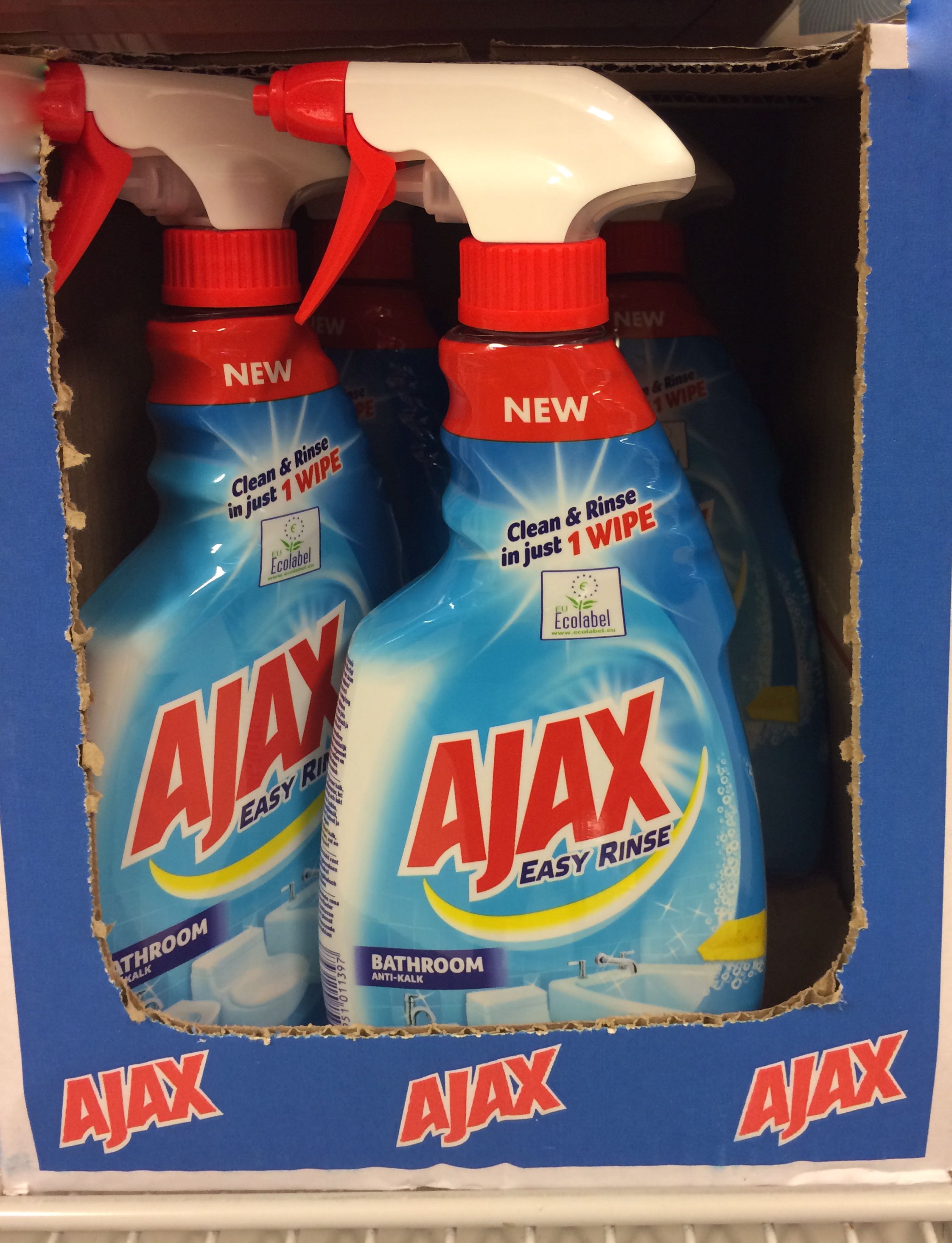 Ajax cleaning agent